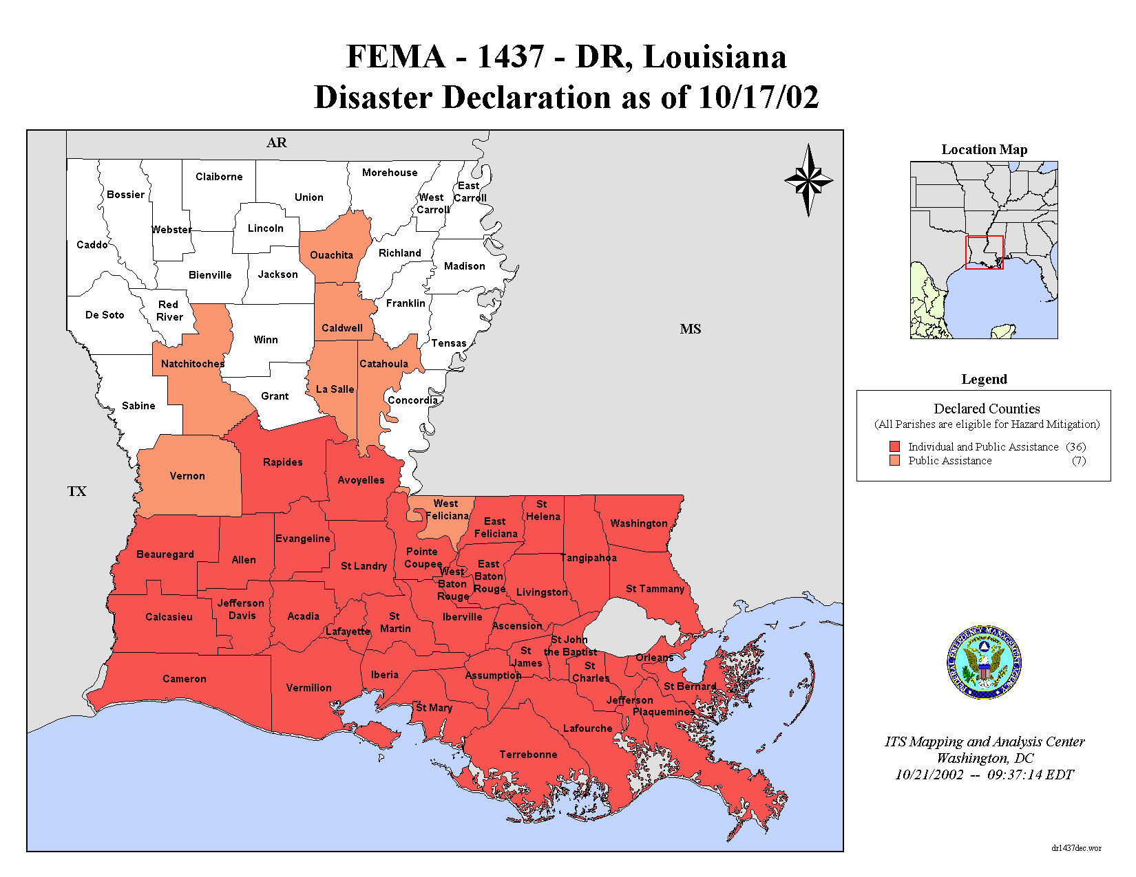 Disaster Declaration Map for Louisiana from Hurricane Lili (2002)